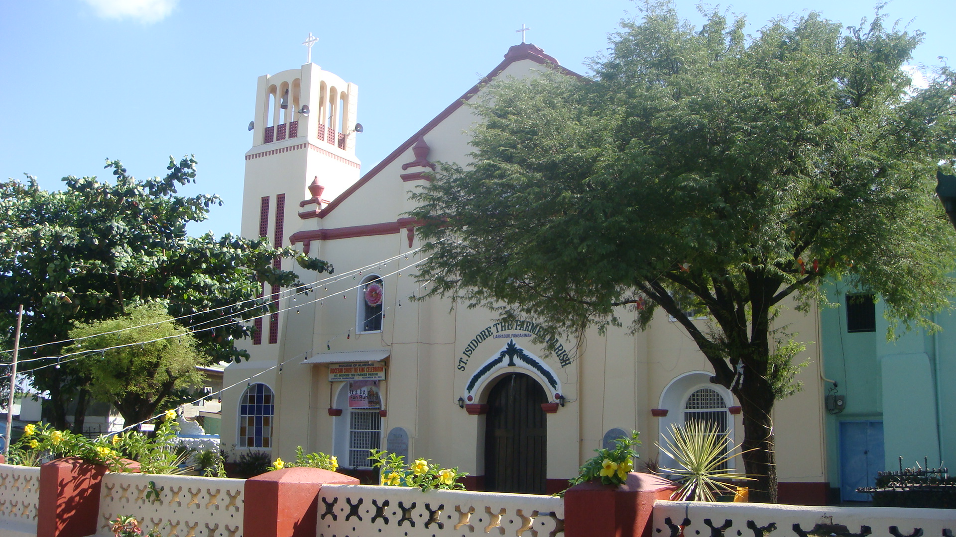 St. Isidore the Farmer Parish Church, Poblacion, Labrador, Pangasinan[1][2]